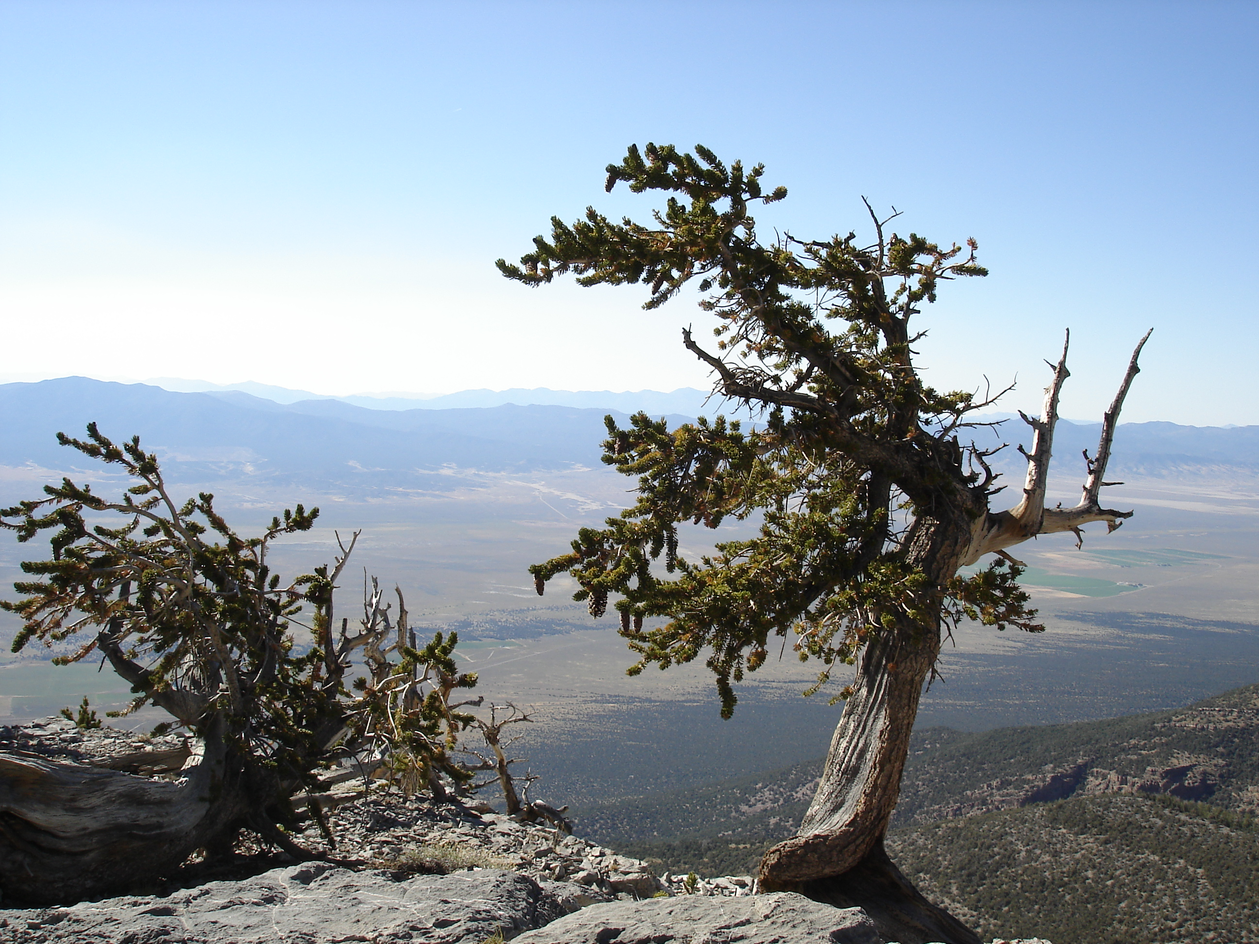 Pinus longaeva on Mt. Washington in the backcountry of Great Basin National Park.